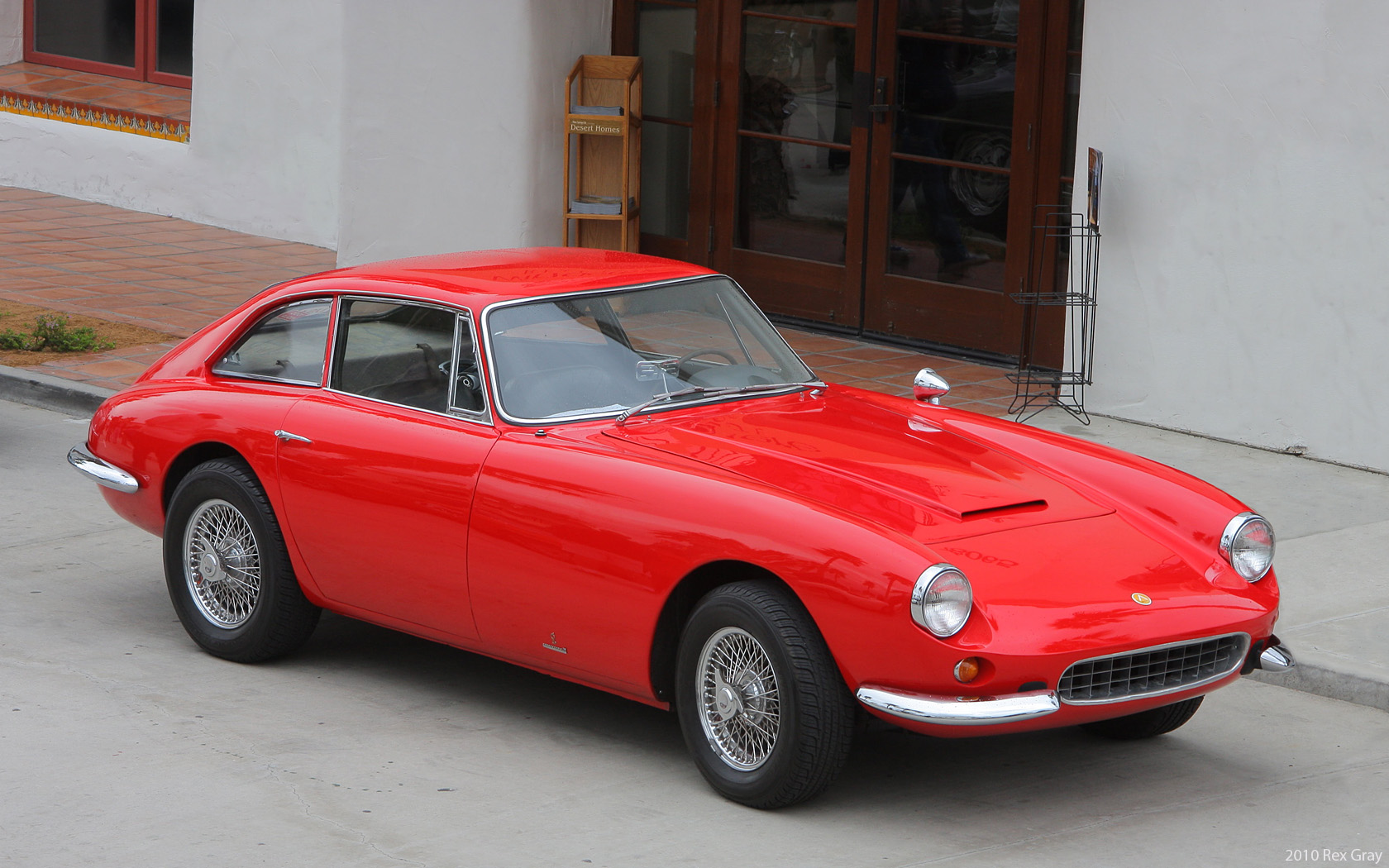 1965 Apollo 5000 GT Coupe, Third Annual Desert Classic Concours d'Elegance, Feb 28 2010